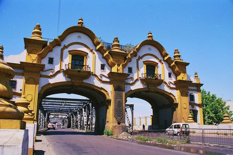 The Puente Uriburu bridge, Buenos Aires, Argentina.